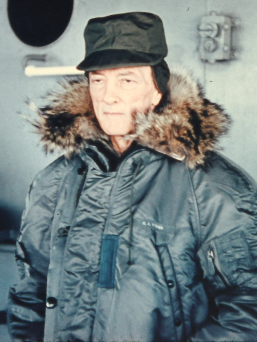 Admiral Richard E. Byrd aboard the USS Wyandot at McMurdo Station, Antarctica, as part of Operation Deep Freeze I.